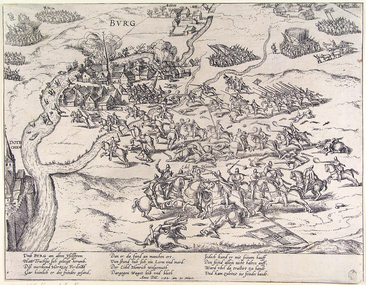 Battle near Terborg, the Netherlands, in 1584. Etching. Rotterdam, Museum Boijmans Van Beuningen (inv.no. BdH 14491 (PK)).